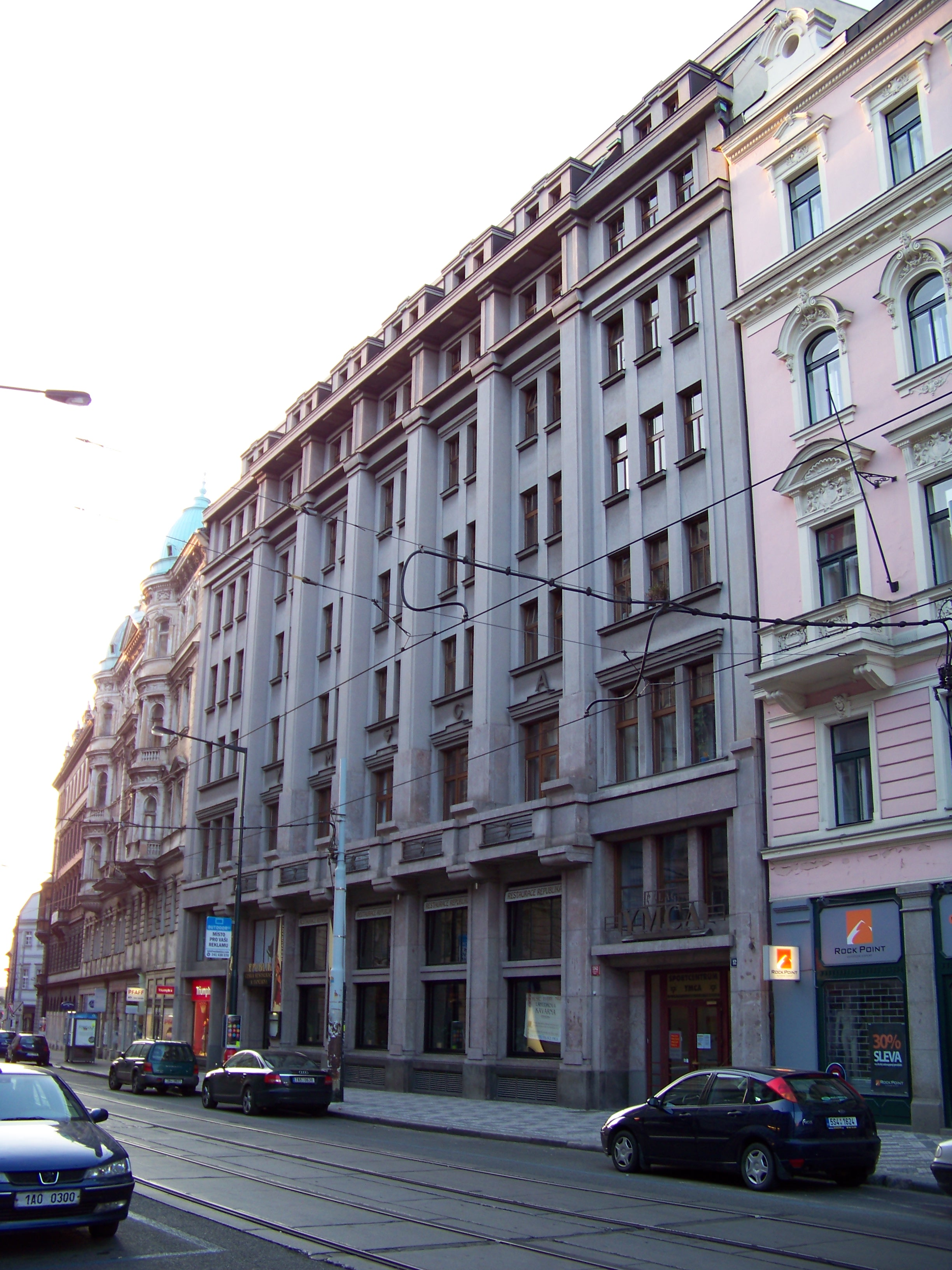 New Town, Prague, the Czech Republic. Na poříčí street, YMCA building.